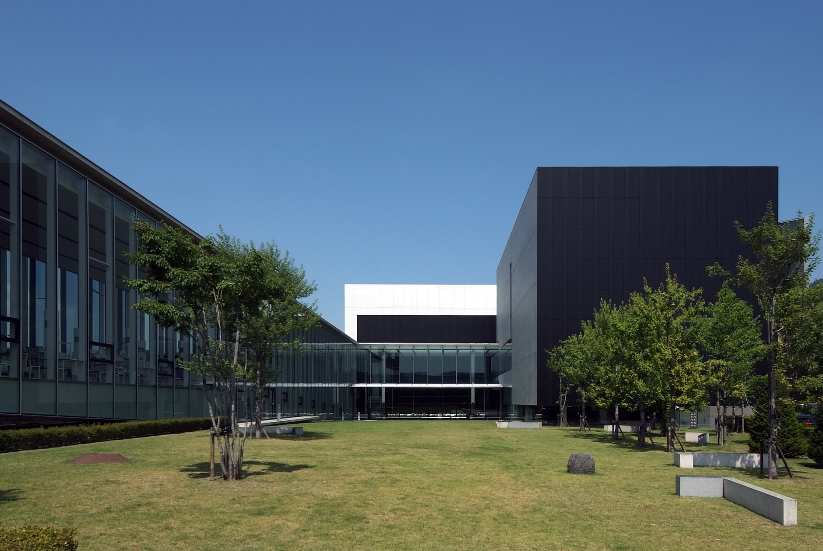 Chino Cultural Complex, designed by Nobuaki Furuya+NASCA in 2007.